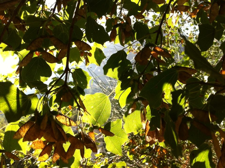 Acer obtusifolium, Mazraet es-Siyad, Lebanon.